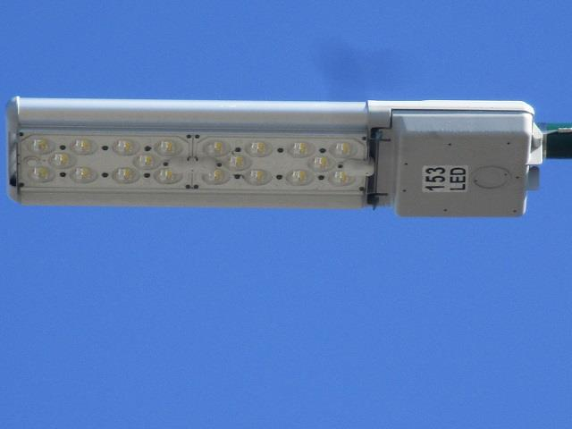 History of street lighting